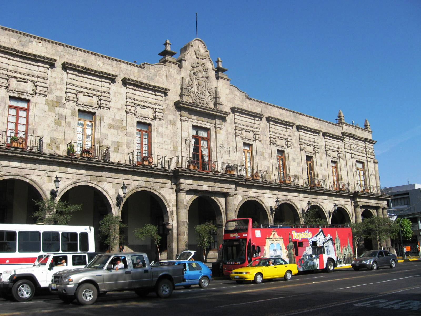 Palace of the Municipal Government of the city of Guadalajara